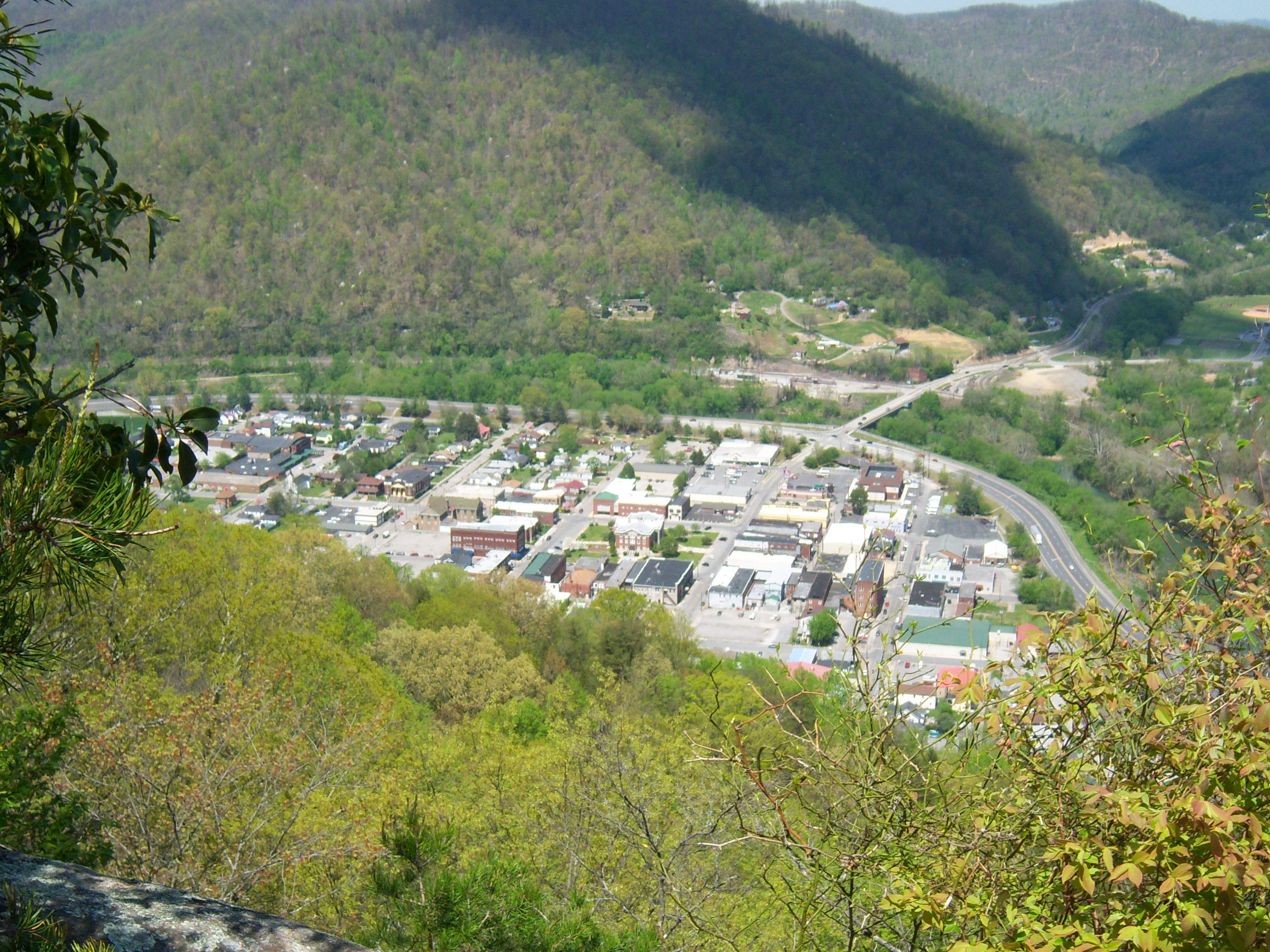 View of Pineville, Kentucky as viewed from Pine Mountain State Resort Park.